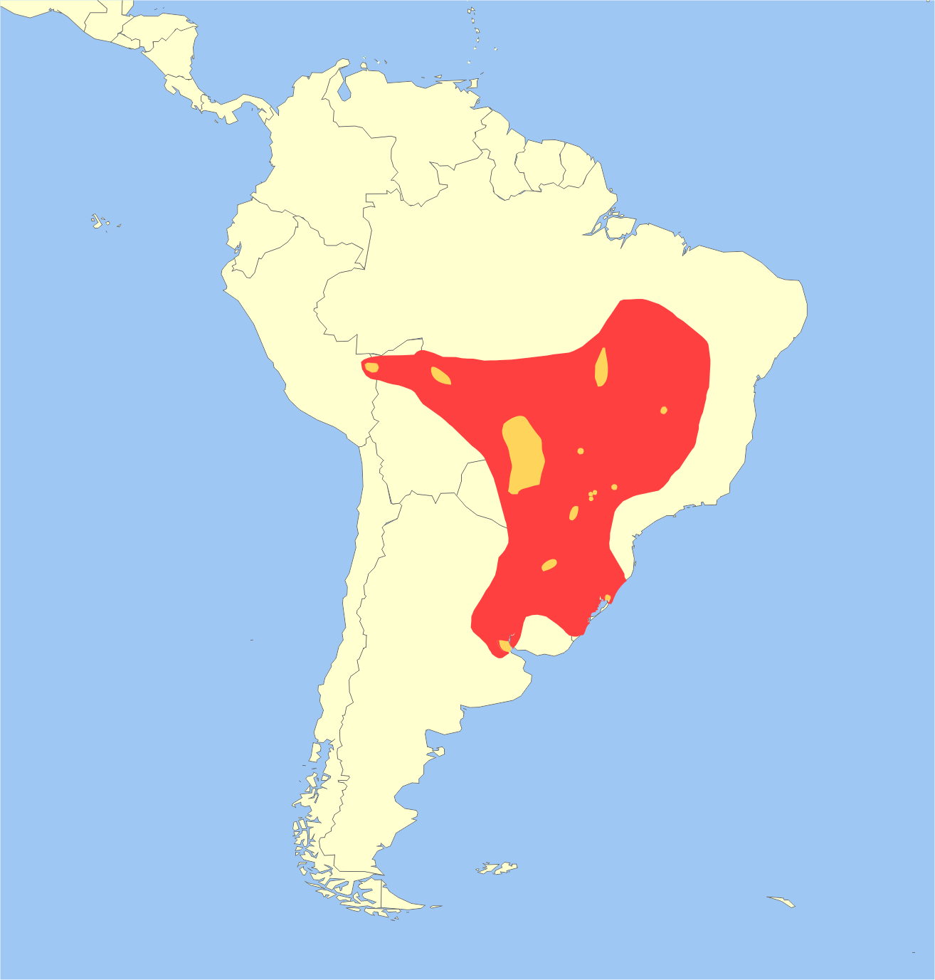 Geographic Distribution of Marsh Deer. Possibly extinct Extant